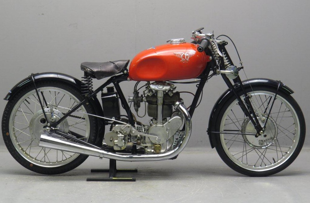 1935 CM (Milano) 250 1 cylinder OHV racer